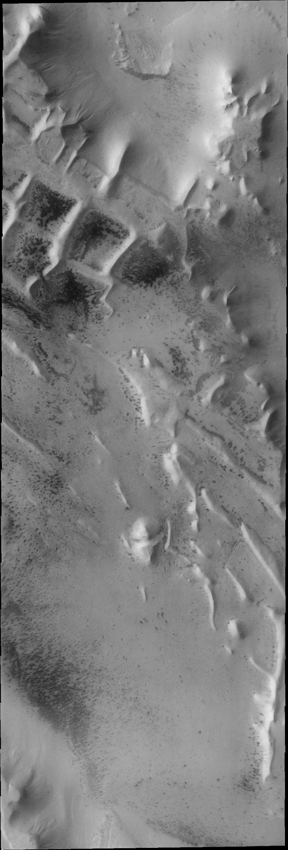 Angustus Labyrinthus, as seen by themis. Location is 81.7 S and 63.2 w. Picture is 17.5 km wide. Picture taken with Mars Odyssey's THEMIS. Photo credit NASA/JPL/ASU.